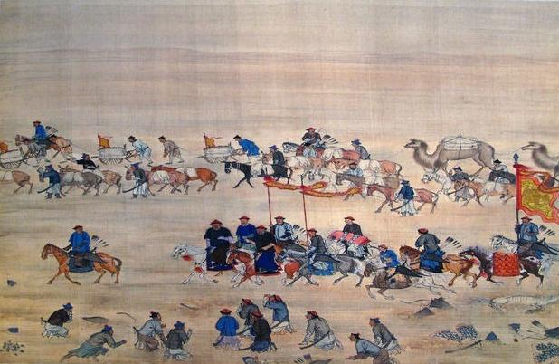 Battle of Ulan Butong (1690). The army of Qing China fought a Dzungarian army to a standstill. Ulan Butong was a place 350 kilometers directly north of Peking near the western headwaters of the Liao River at the southern end of the Greater Khingan Mountains